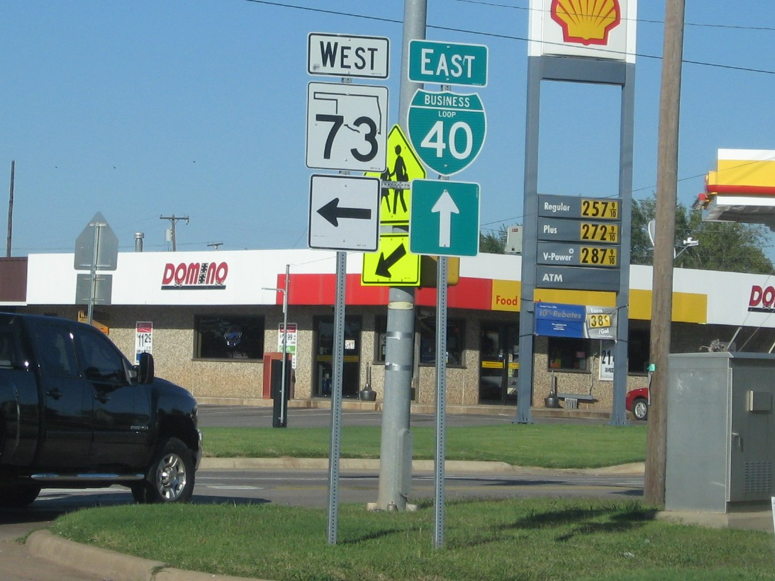 The eastern terminus of SH-73 as viewed from eastbound Business Loop I-40 in Clinton, Oklahoma.